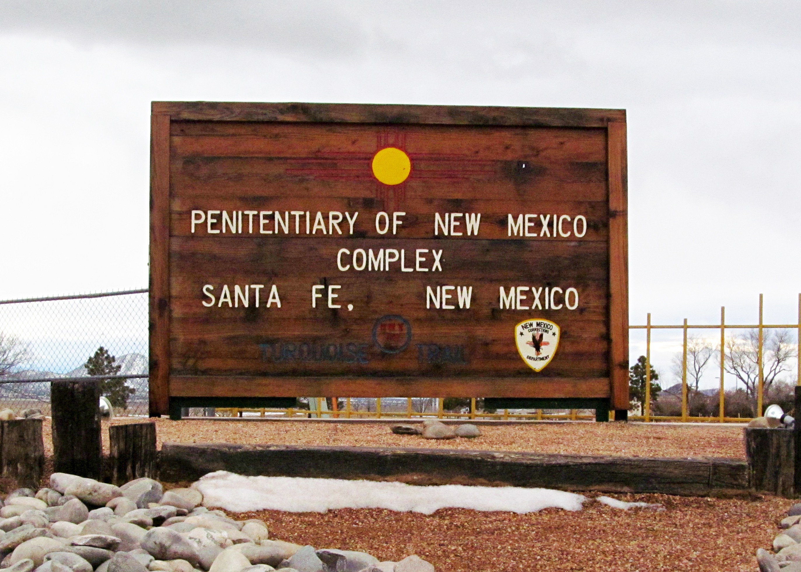 The sign featured at the entrance to the Penitentiary of New Mexico.